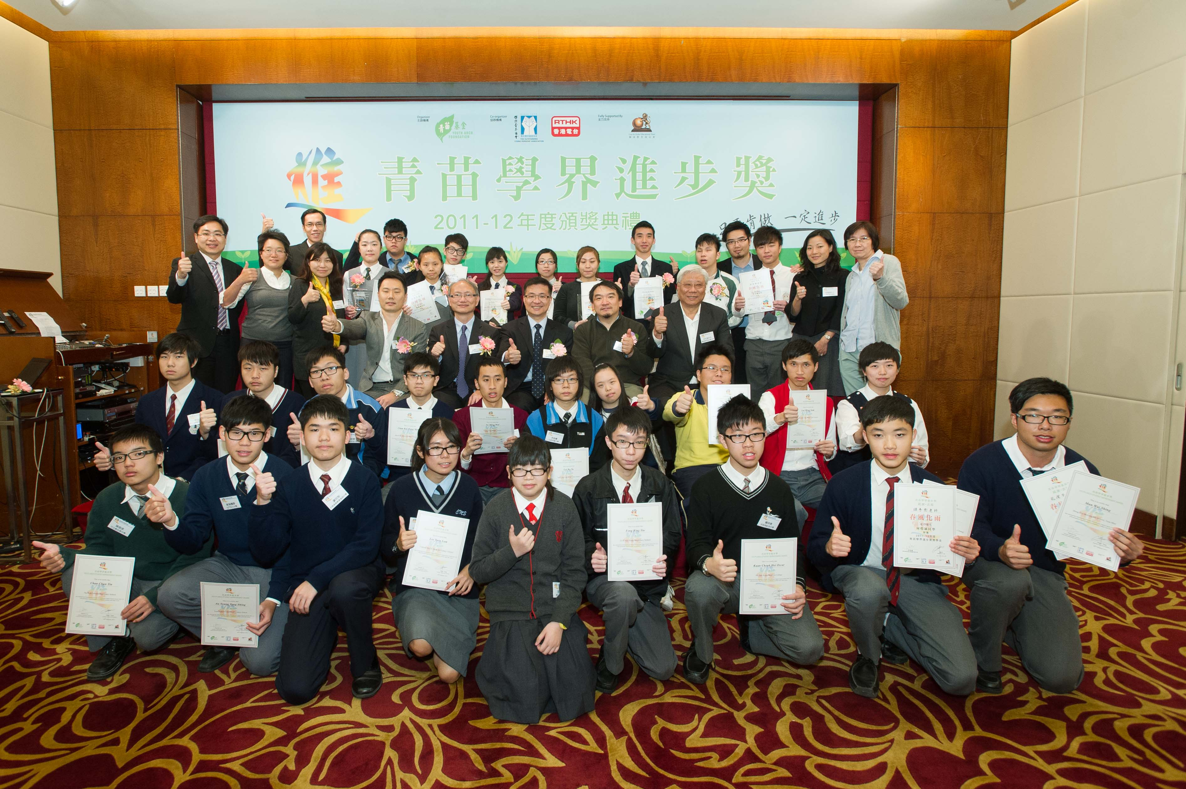 Youth Arch Student Improvement Award 2011-12 Prize presentation ceremony at Eaton Hotel on Feb 24, 2013